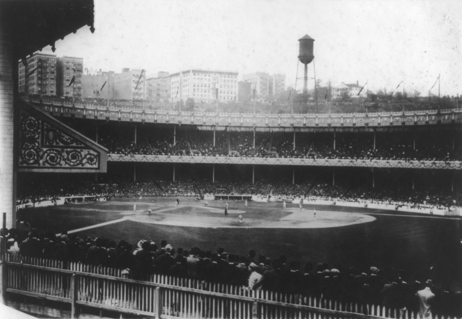 TITLE: Baseball parks – Polo Grounds during World Series game, 1913